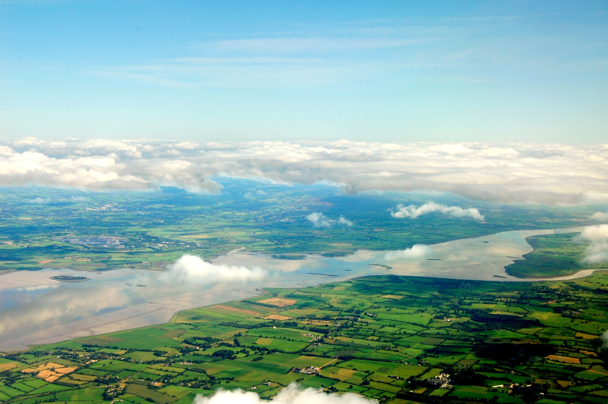 Shannon, County Clare, Ireland as the plane comes down to land at Shannon Airport